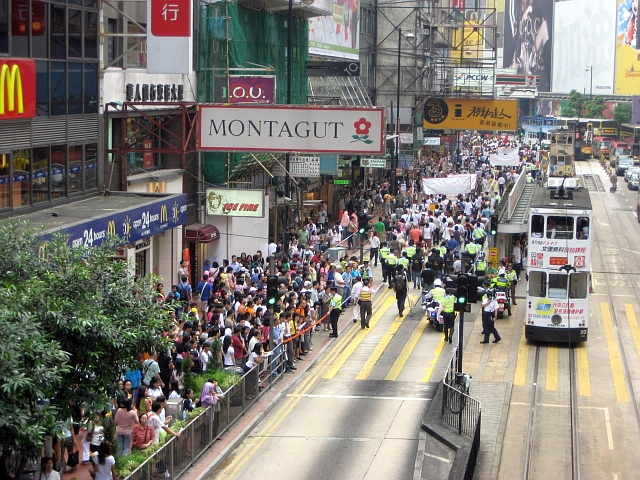 26Aug2007 Protest @ Causeway Bay, Hong Kong